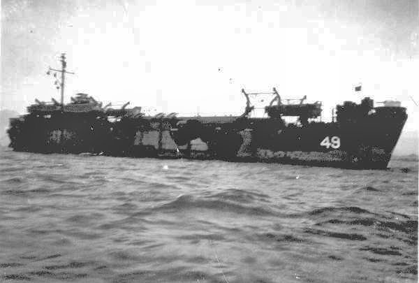 The U.S. Navy self-propelled barracks ship USS Accomac (APB-49) at anchor in Tokyo Bay, 1945. She had been originally commissioned as LST-710.